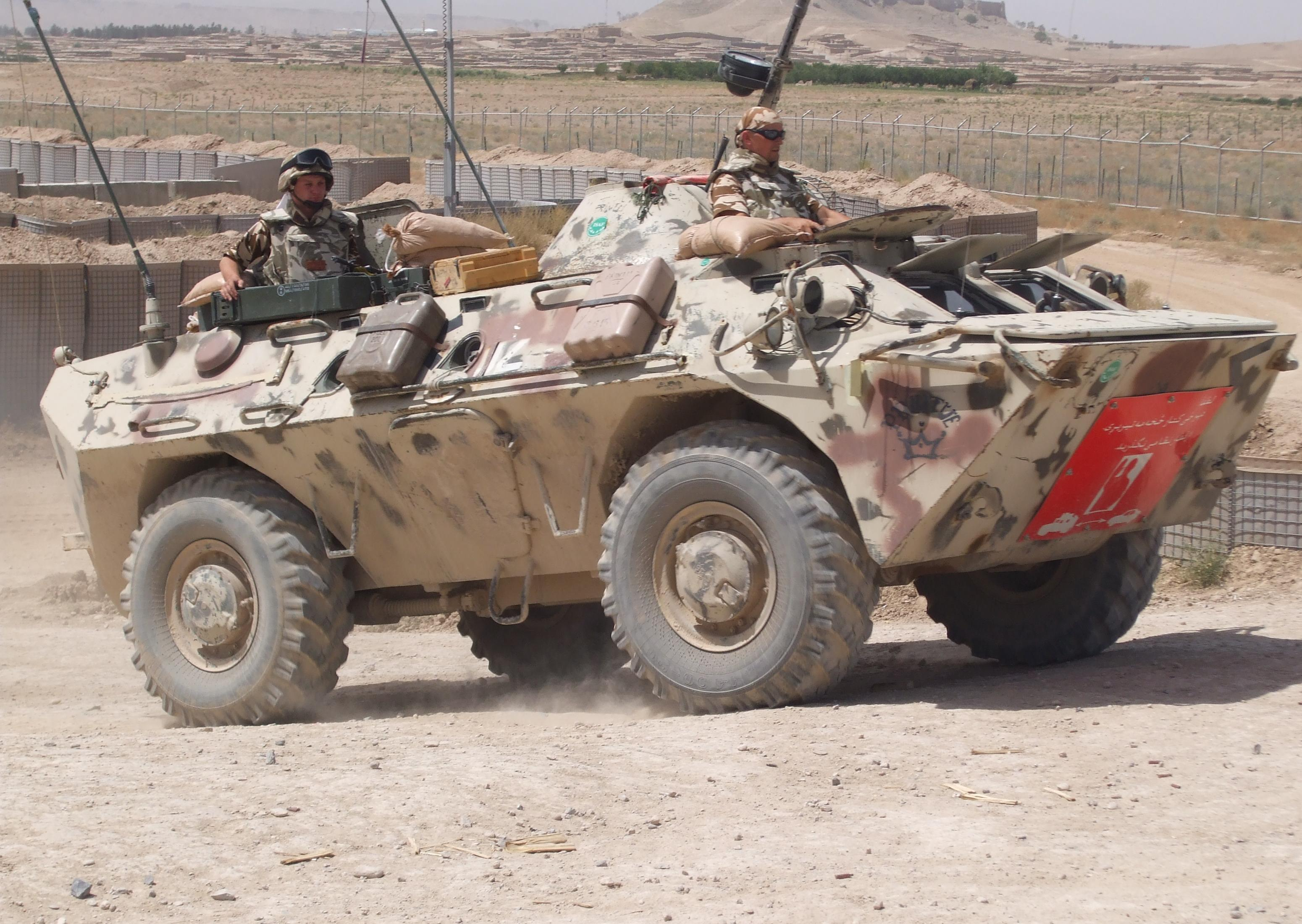 Romanian TABC-79 leaving base for a patrol mission in Afghanistan.